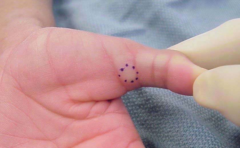 Notta Nodule seen by a congenital trigger thumb